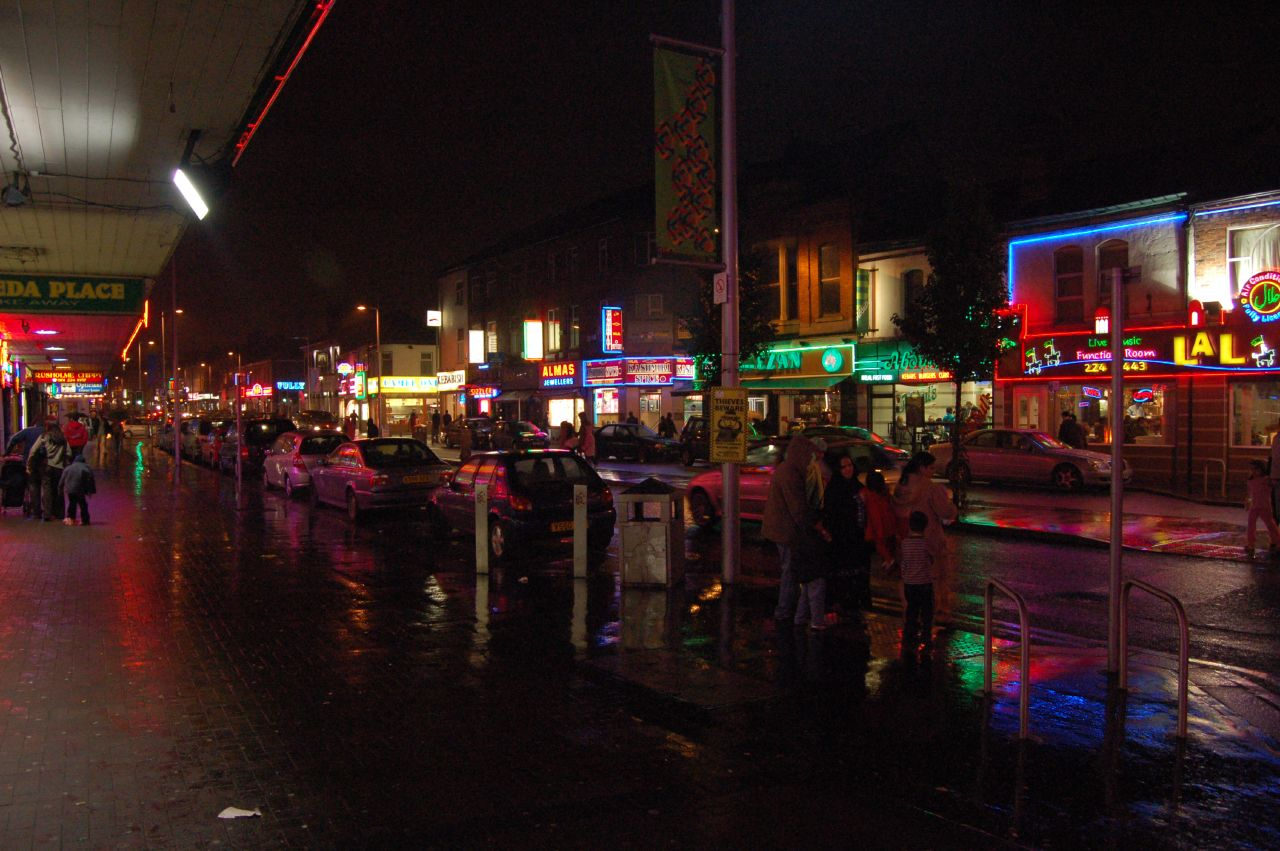 The Curry Mile, Rusholme, Manchester, England.